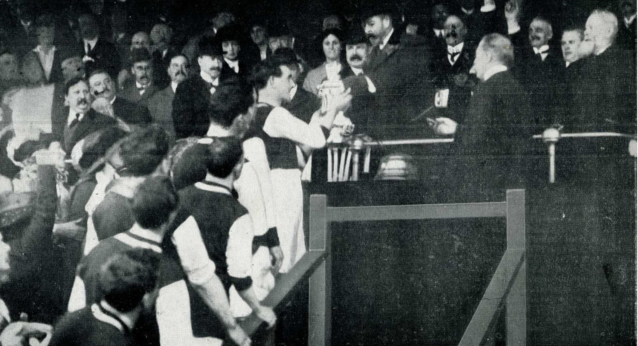 HM The King George V presents the FA Cup trophy to Tommy Boyle of Burnley F.C. after winning the cup against Liverpool F.C. 25 April 1914. Crystal Palace, London, England. Image found on the official Liverpool F.C. website, in The Clarets Chronicles (ISBN 978-0-9557468-0-2), and in The Road to Glory (ISBN 978-1-78148-690-0). All three give no details of the author's and photographer's identity, so it must be presumed to be unknown. This, and the age of the image mean it is in the PD per the template shown.